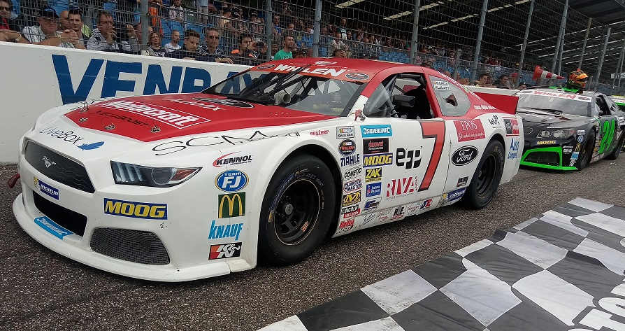 The car used by Borja Garcia after winning the second Elite 1 NASCAR Whelen Euro Series race in 2017 at Raceway Venray.